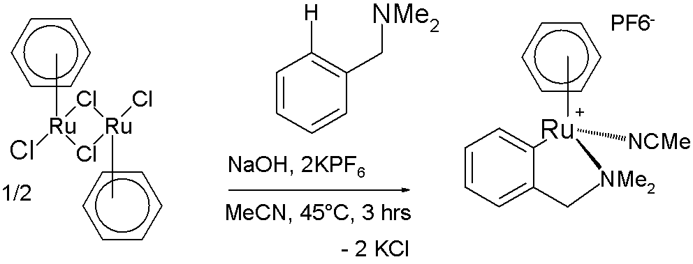 CH activation by ruthenium